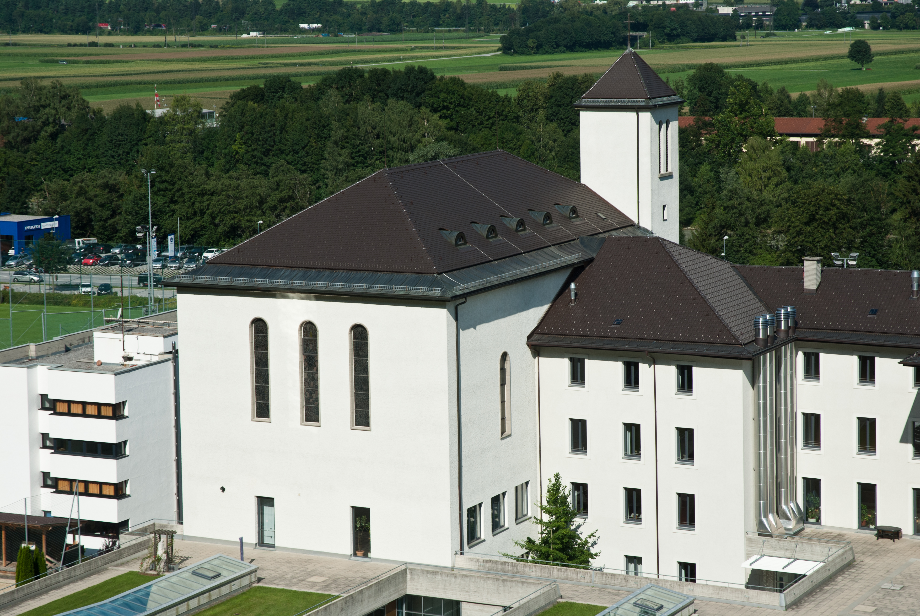 Kapelle des Paulinum Schwaz This media shows the remarkable cultural object in the Austrian state of Tyrol listed by the Tyrolean Art Cadastre with the ID 7471. (on tirisMaps, pdf, more images on Commons)